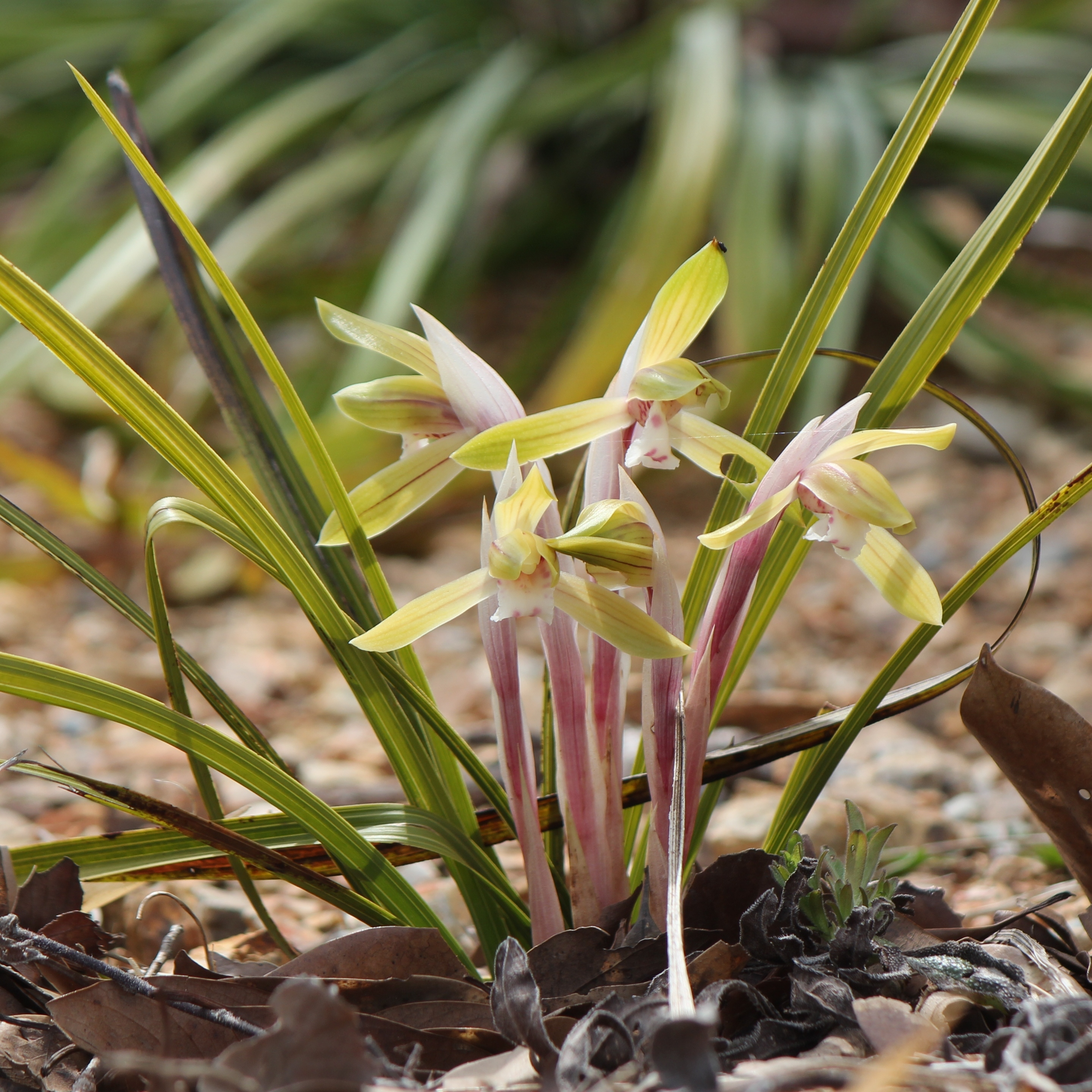 Cymbidium goeringii in Yumihari Mountains, Toyohashi, Aichi prefecture, Japan.